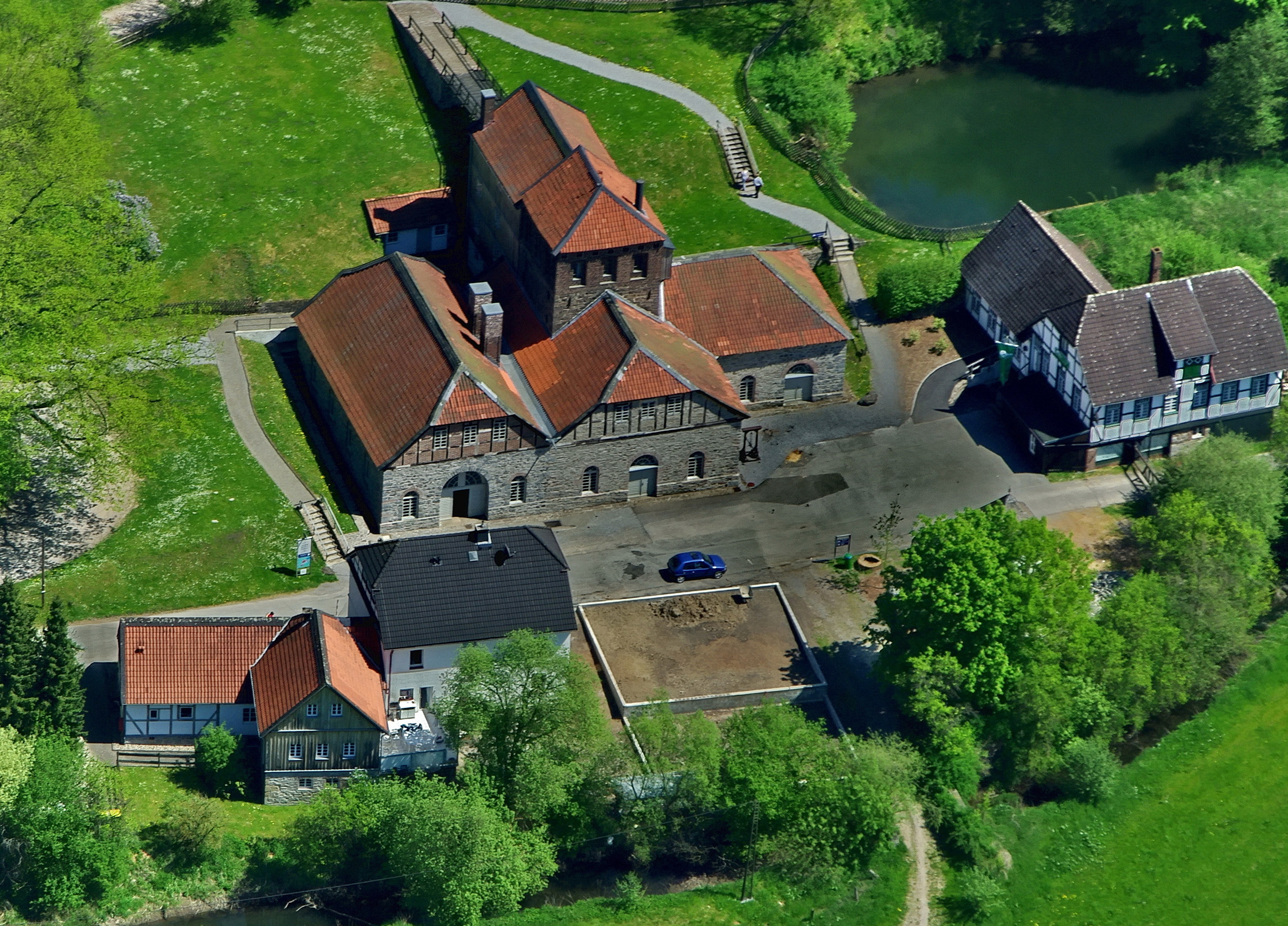 Luisenhuette - Balve, Germany